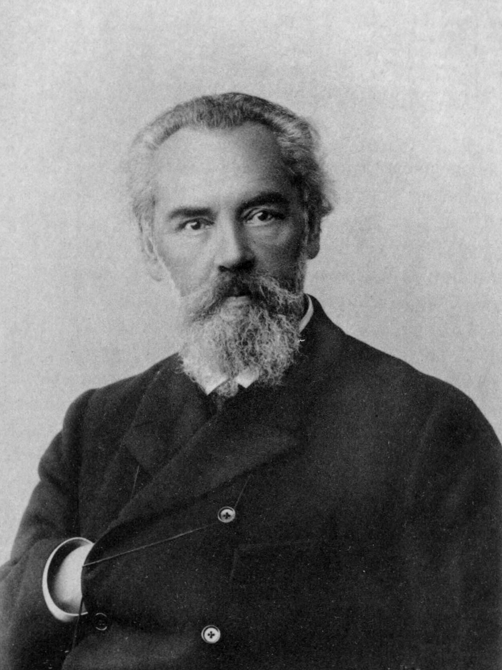 Russian literary critic Alexander Veselovsky